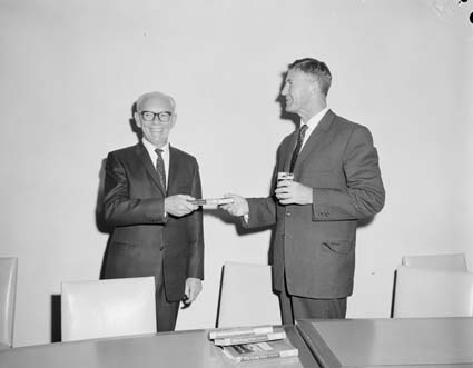 Australian historian, Lionel Wigmore (left), presents a copy of his new work, A History of Canberra, to the Minister for the Interior, Mr G Freeth (right), at Canberra. Mr Wigmore,s History of Canberra is an account of the growth of the National Capital in 50 years